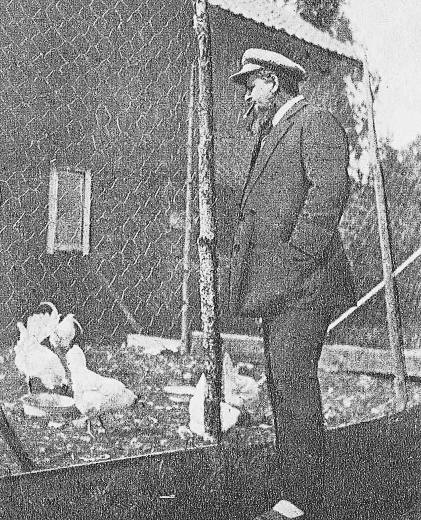 Arthur Sjögren (1874-1951), Swedish artist and book historian; made the cover art for several original editions of books by August Strindberg. Sjögren is seen here at his summer residence on Ljusterö.